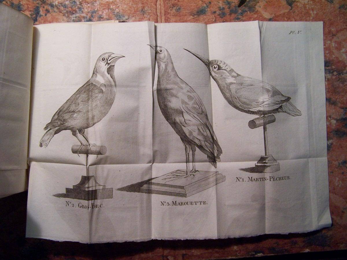 Jacques-Marie Hénon et Marie Jacques Phillippe Mouton-Fontenille, L'art d'empailler les oiseaux, contenant des principes nouveaux et sûrs pour leur conserver leurs formes et leurs attitudes naturelles, avec la méthode de les classer d'après le systême de Linné..., Lyon, Bruyset, an 10 [1802], seconde éd., plate V